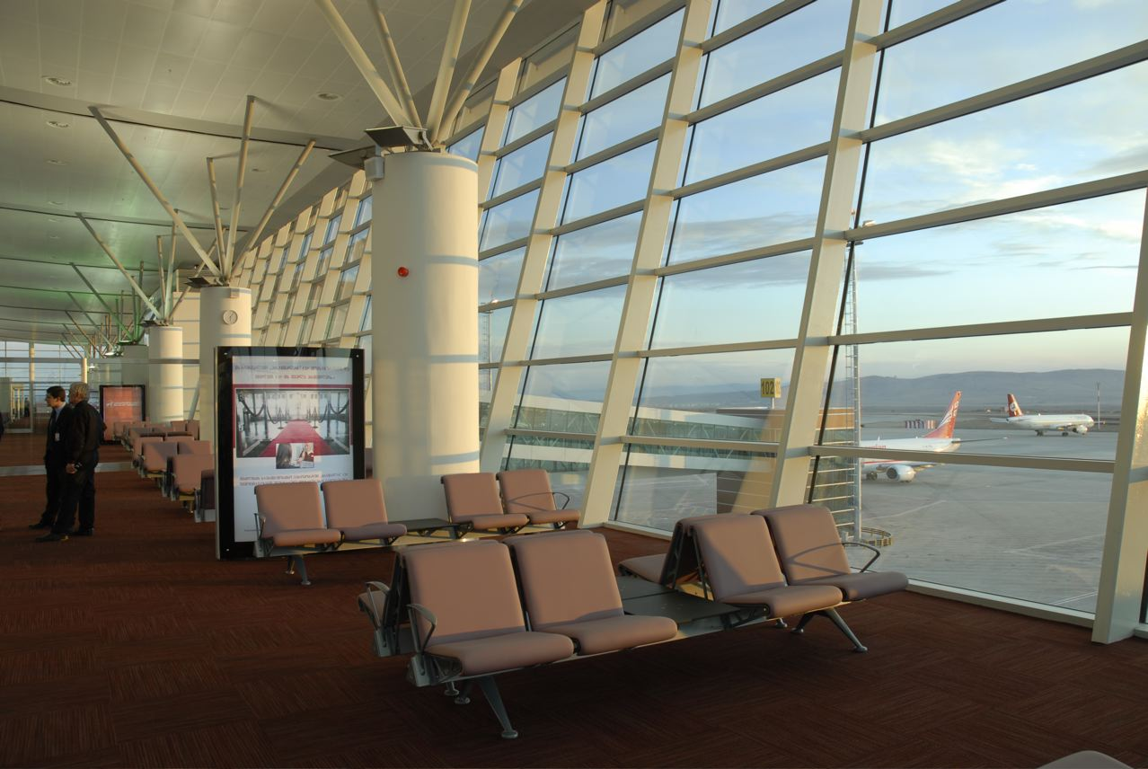 Photo from Airport page. Was taken on opening og airport. Public Event